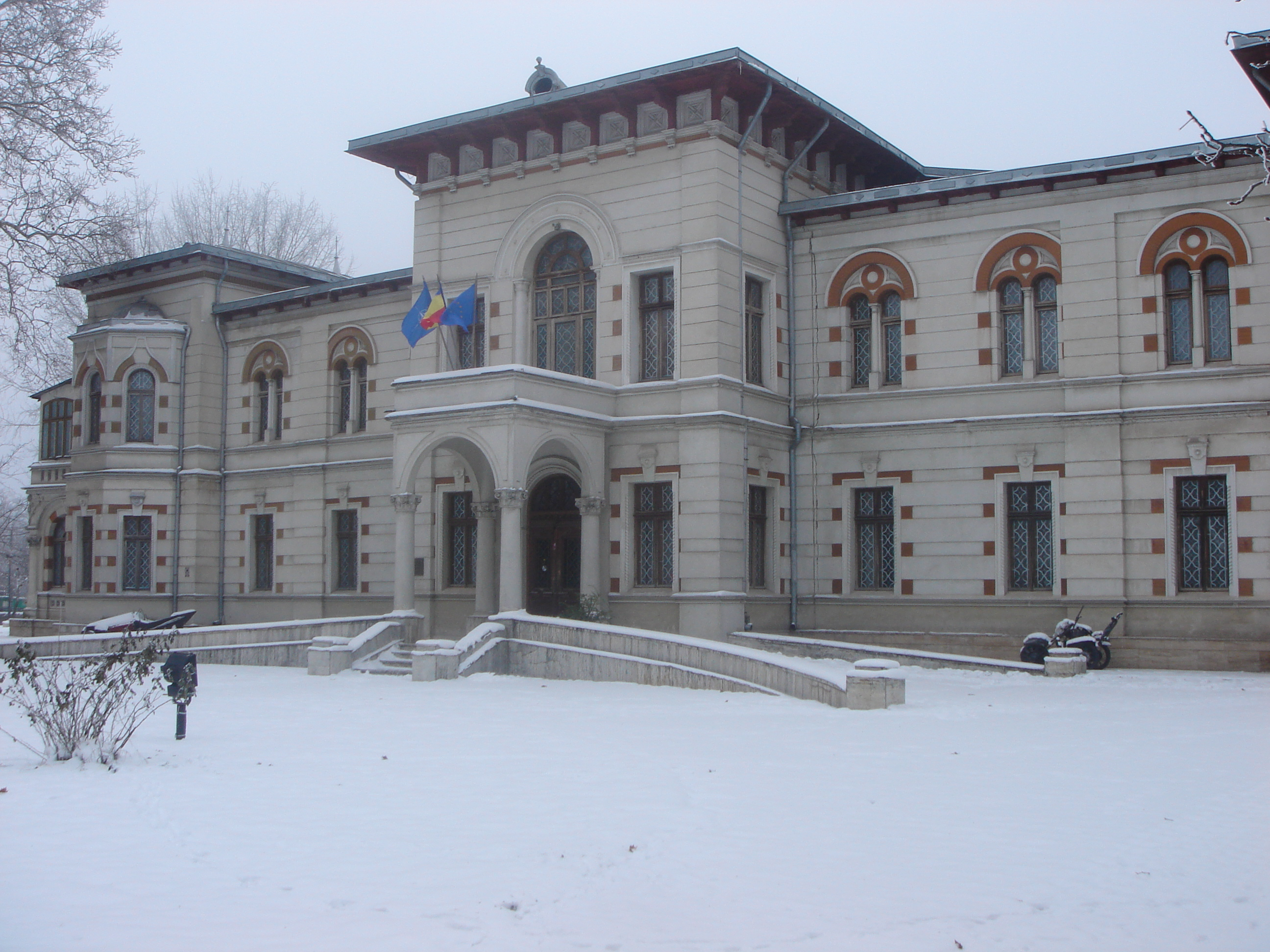 MAV Galati